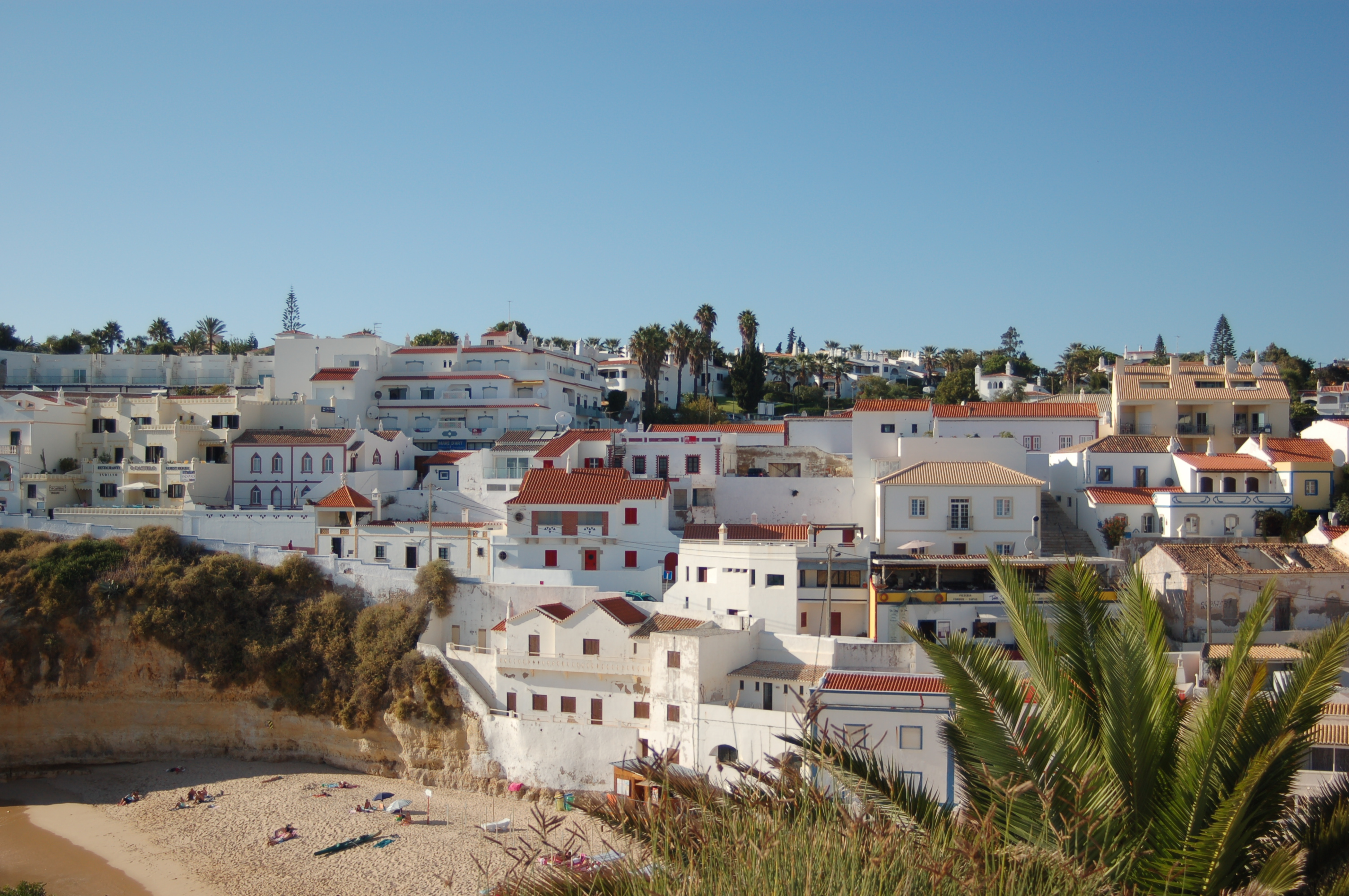 City of Carvoeiro,Algarve,Portugal